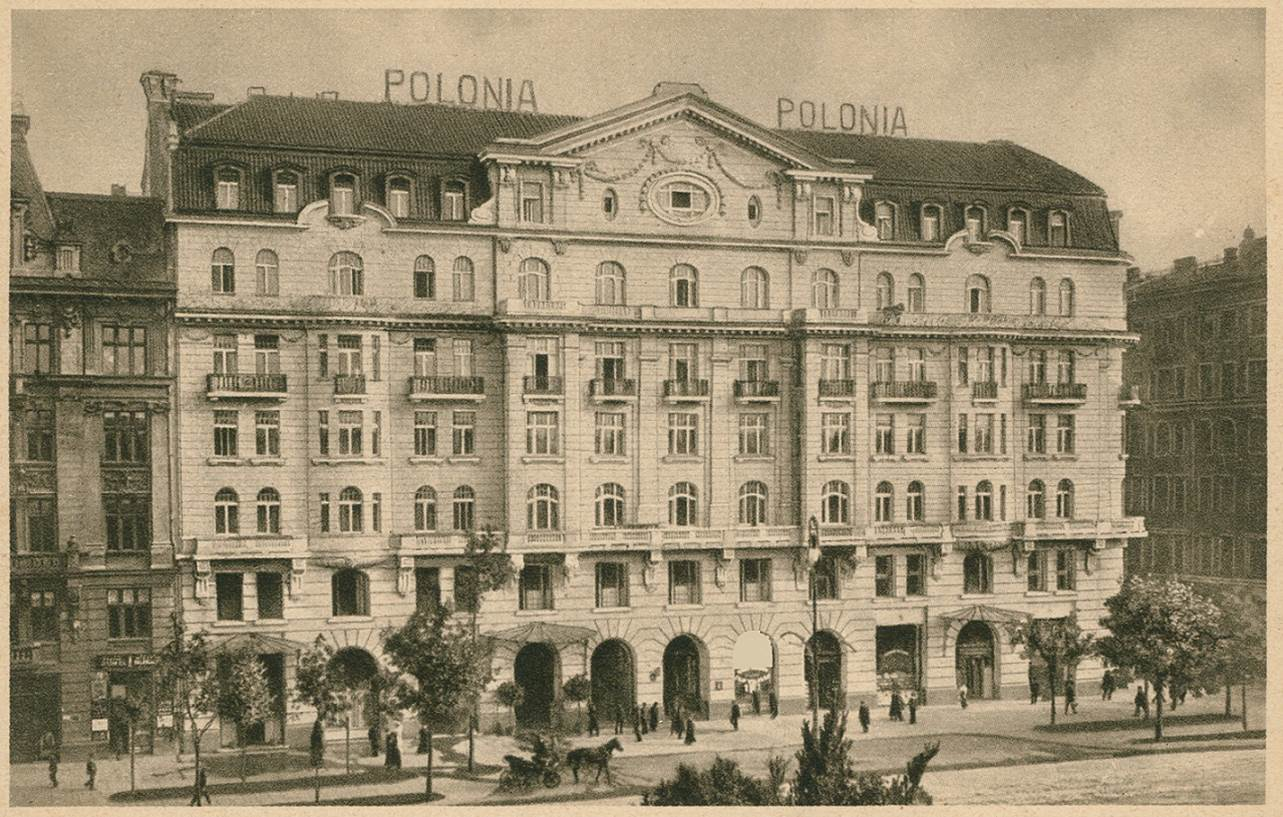 Polonia Hotel in Warsaw